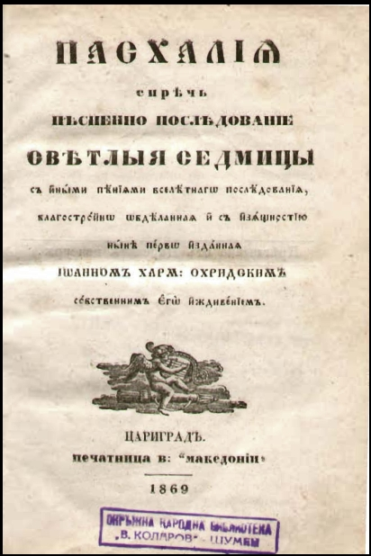 Paschalia